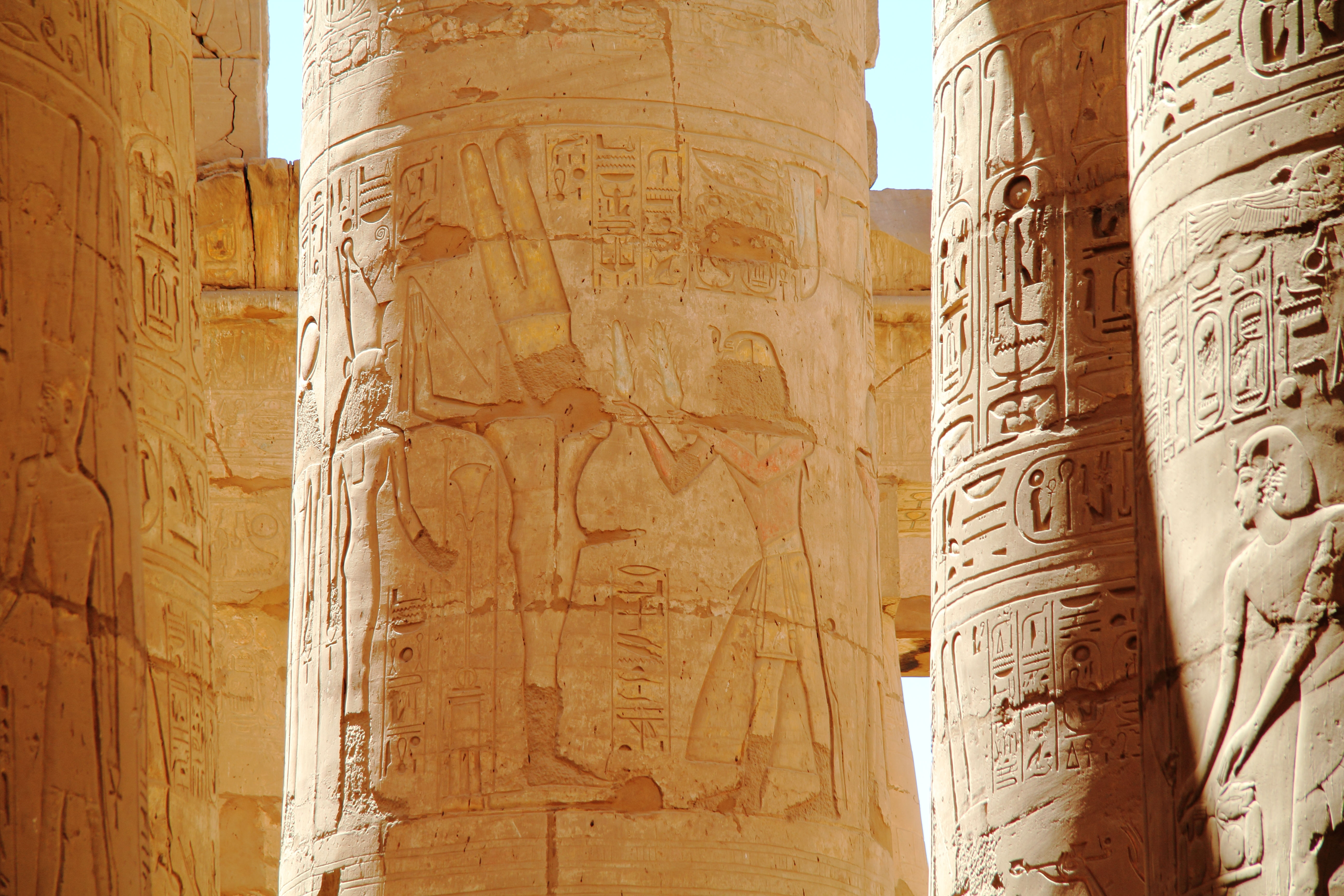 Luxor, Egypt: Karnak temple, Great Hypostyle Hall in the Precinct of Amun-Re